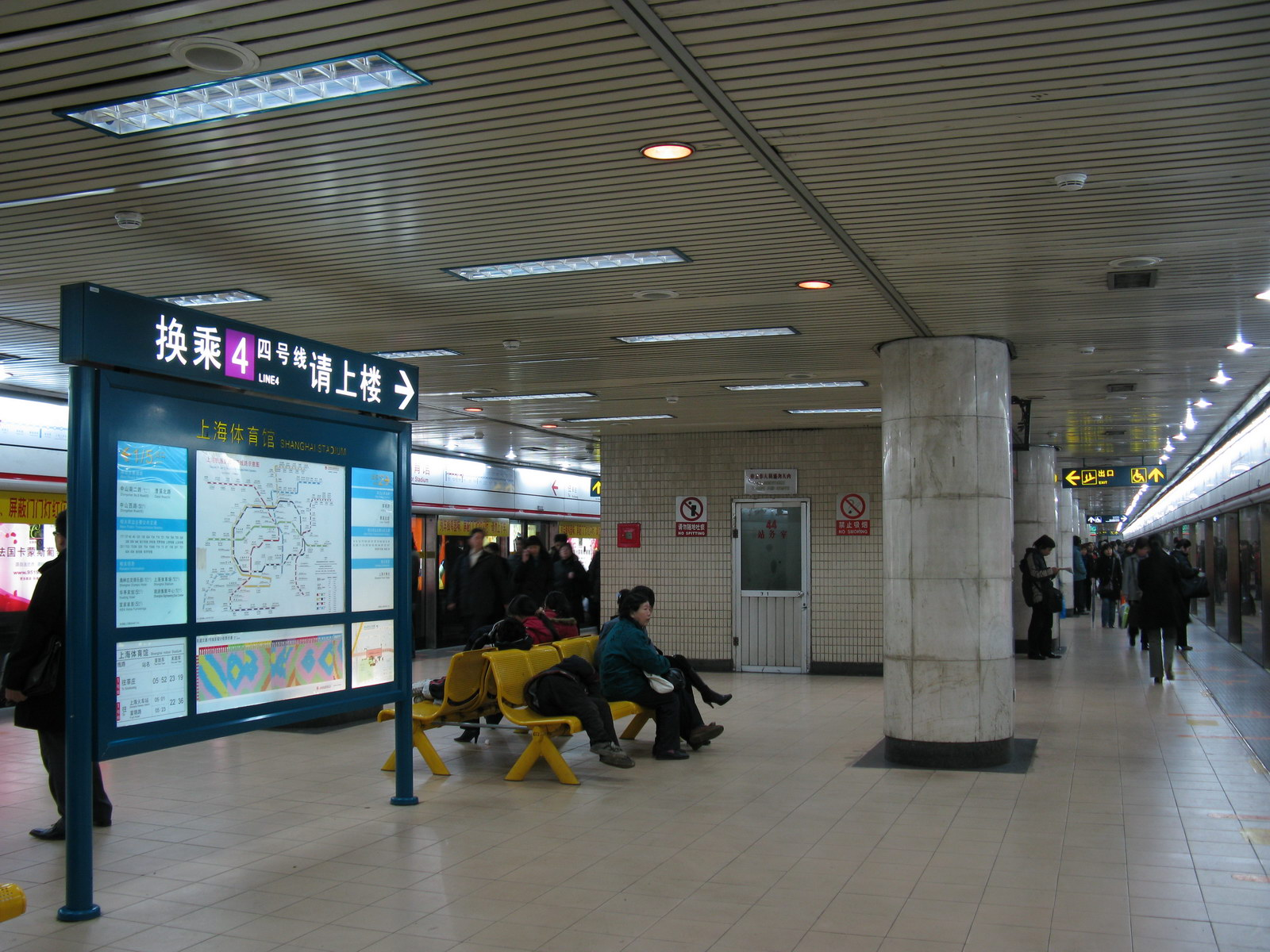 上海體育館站-1號線月台 Line 1 Platform of Shanghai Indoor Stadium Station